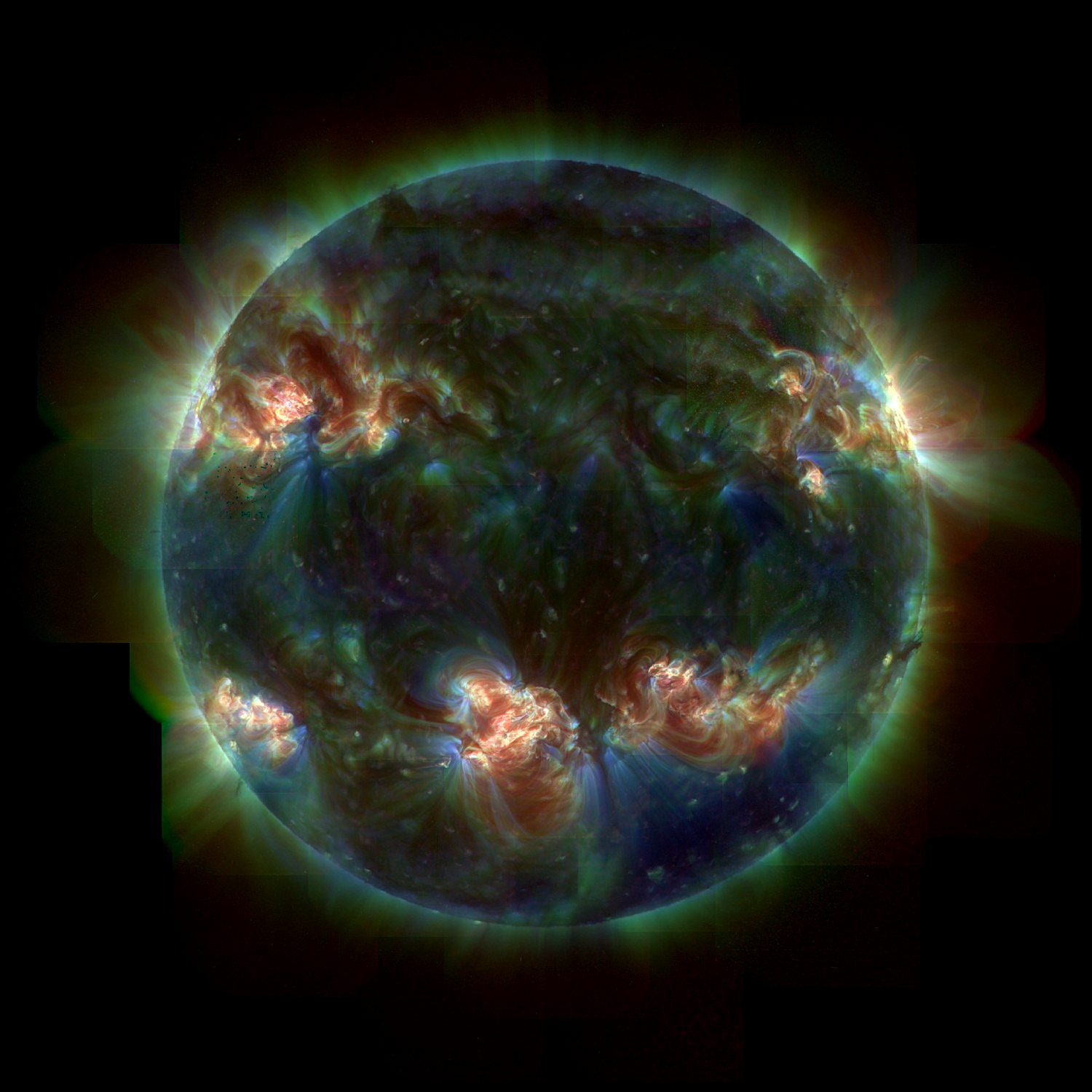 Transition Region and Coronal Explorer (TRACE), Stanford-Lockheed Institute for Space Research, PAJ ASA